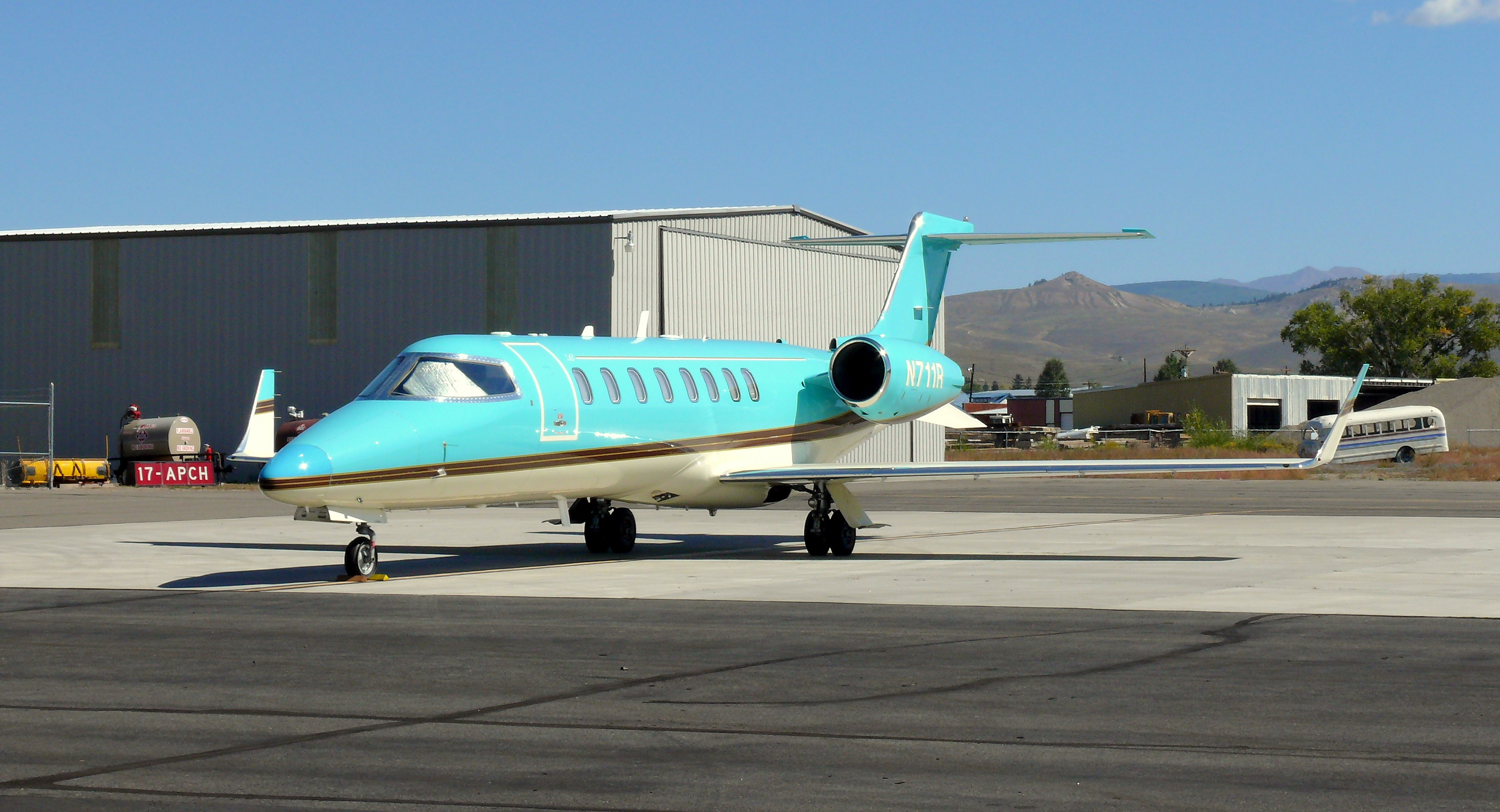 Learjet 45 at Gunnison Airport